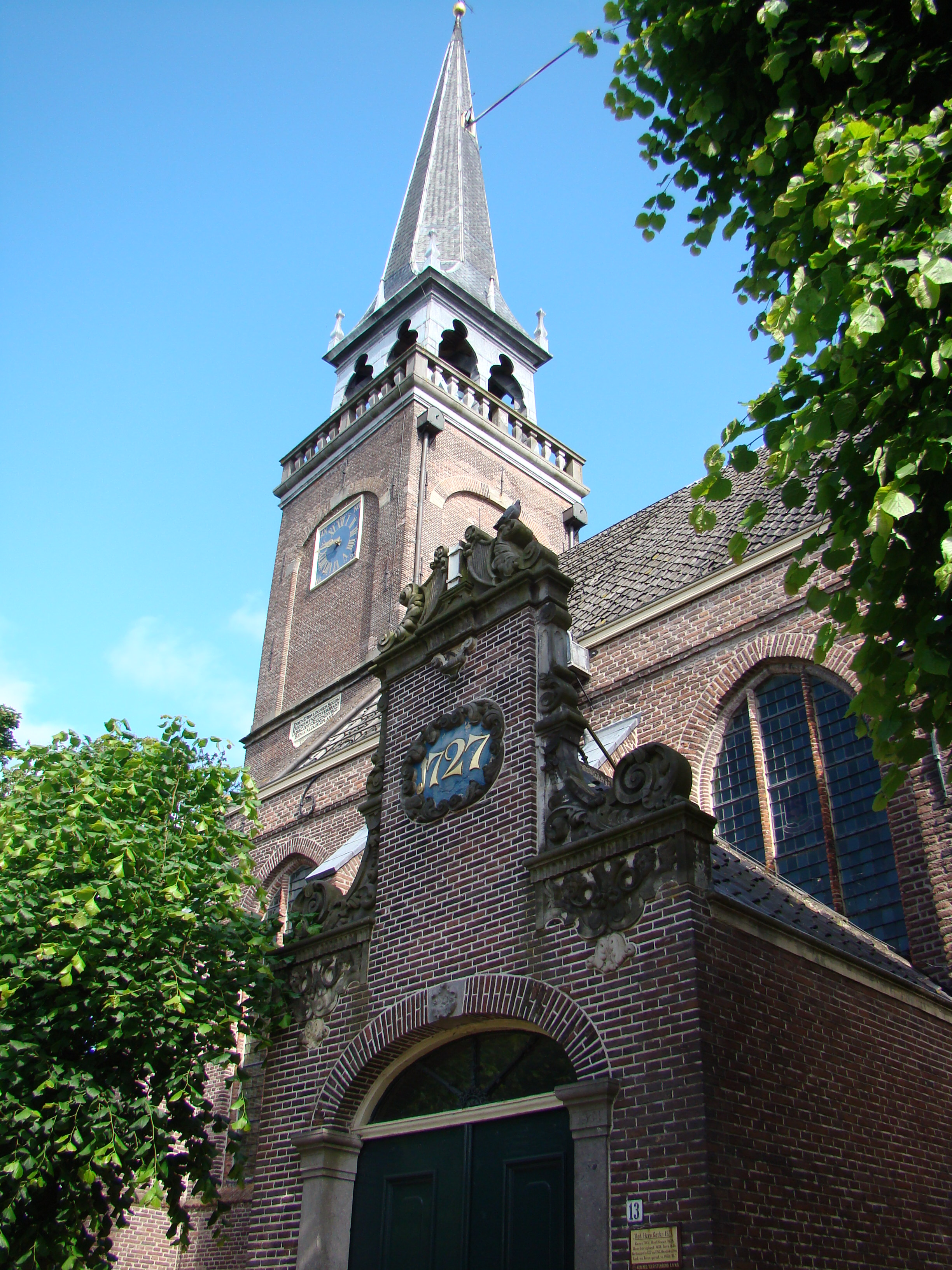 Impressions of Broek in Waterland, Netherlands Church of Broek in Waterland